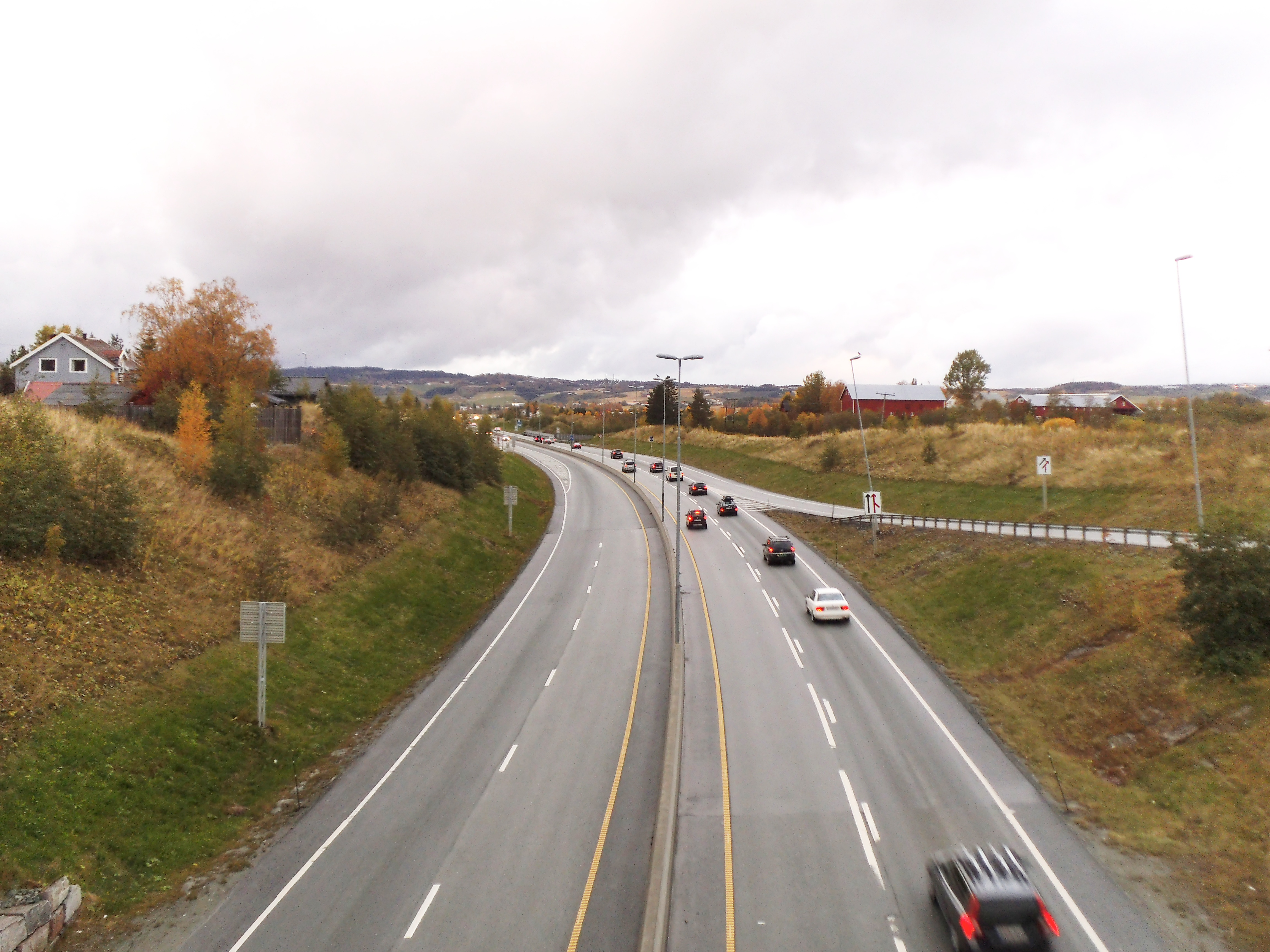 European route E06 in Melhus. Direction north.